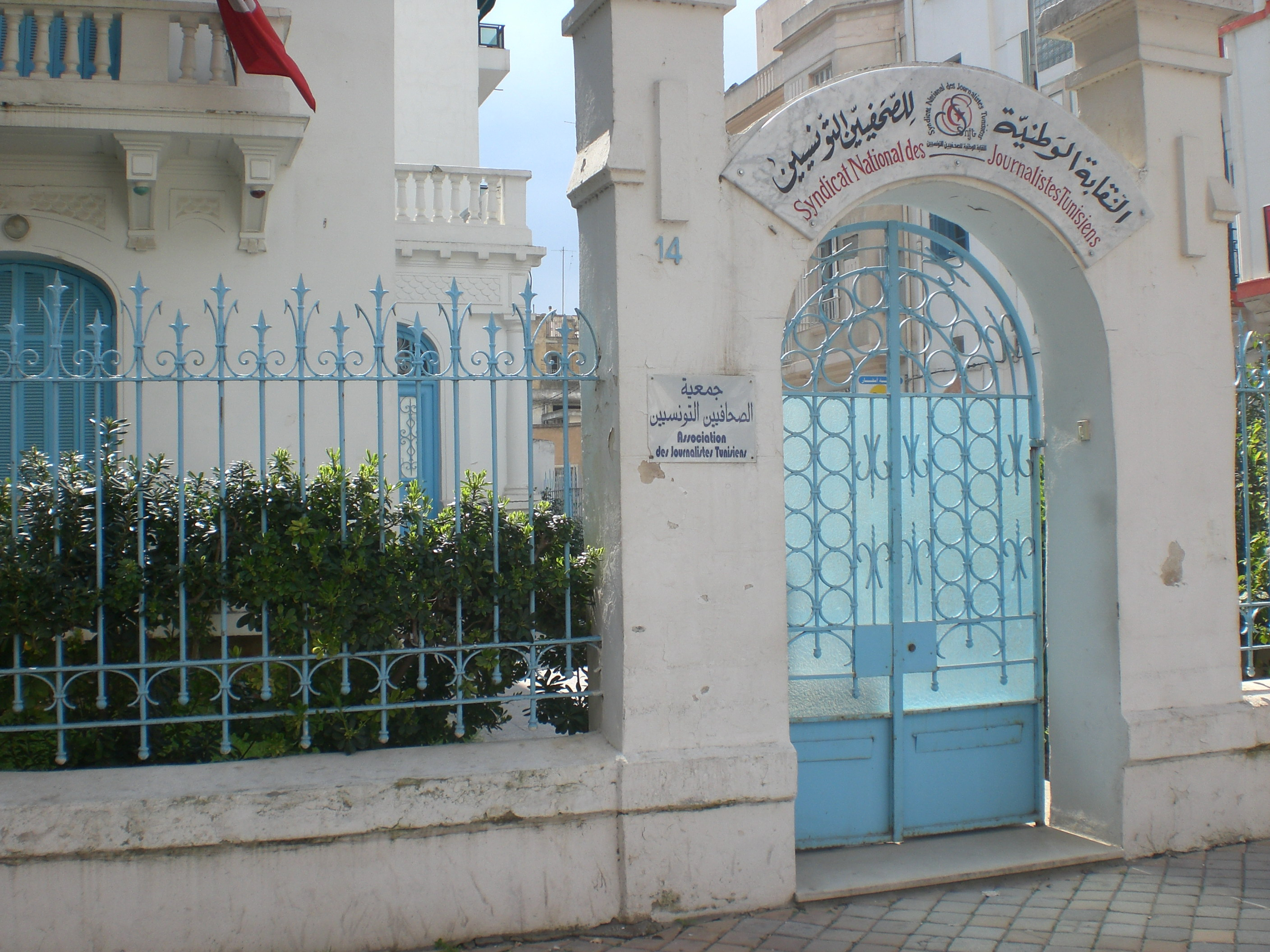 The Building of the Syndicats des Journalistes Tunisiens